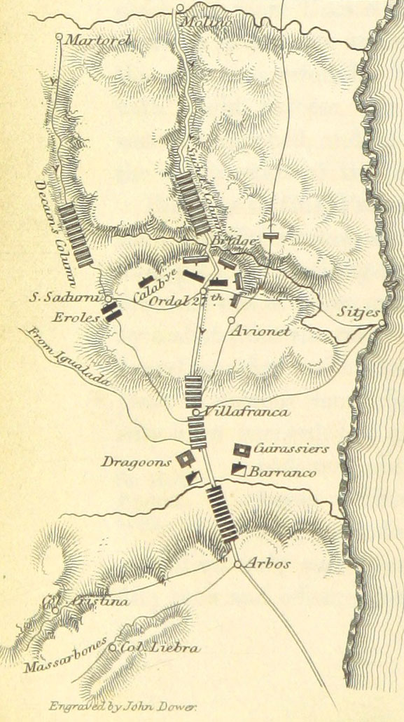 A map of the 1813 Battle of Ordal during the Peninsular Campaign. British and Spanish troops are in black; French troops are in gray.